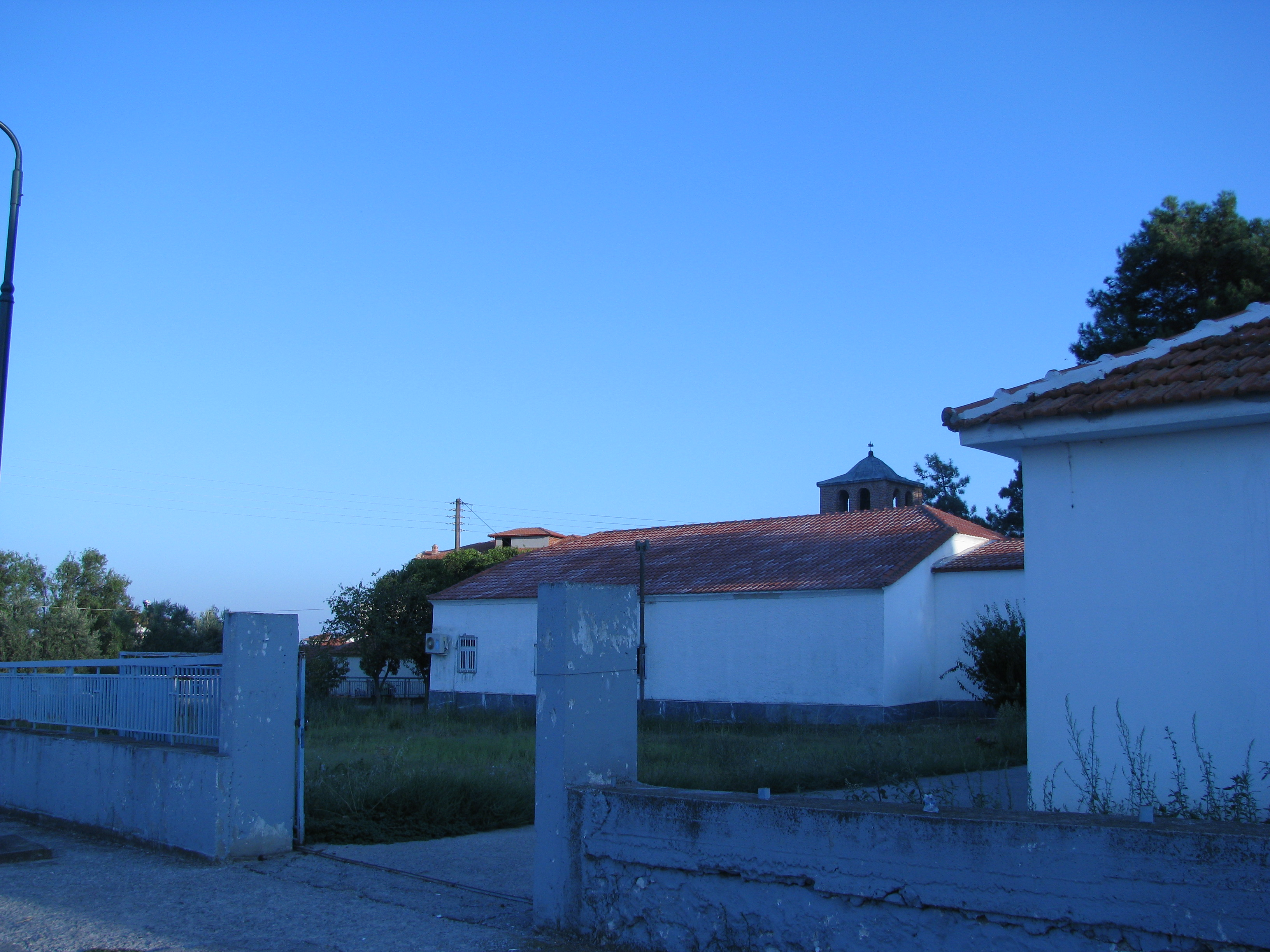 Church of St. Atanas of Kufalia/Kufalovo, Aegean Macedonia, Greece